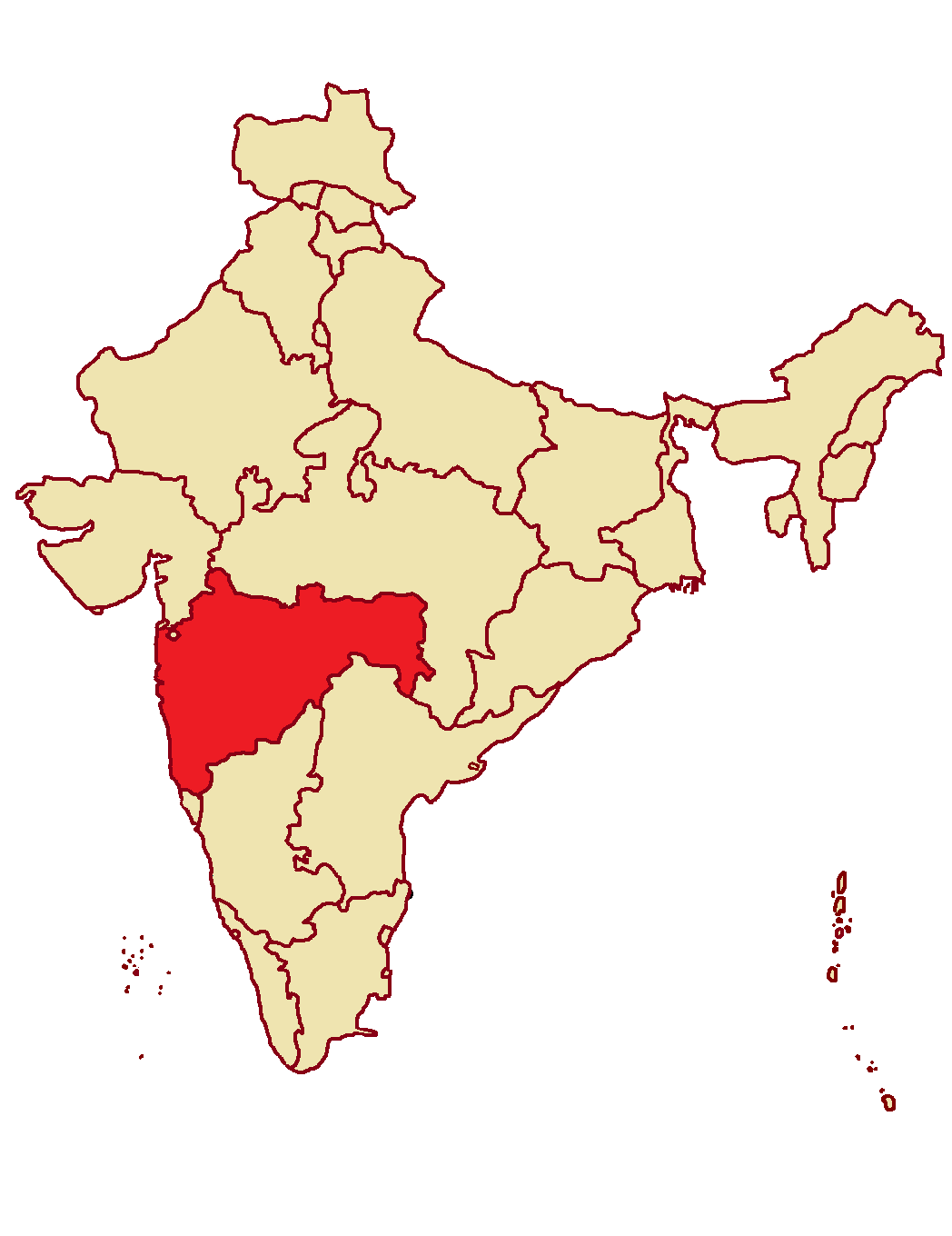 States and Union Territories of India, as of 1964-1965, i.e. between the creation of the state of Nagaland in 1963 and the Punjab Reorganization Act, 1966. Map does not include territories claimed by India but controlled by other countries. Borders not necessarily to scale. Based on File:States_of_India_(1964).png